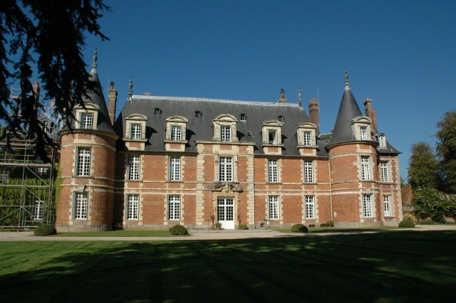 Miromesnil Castle